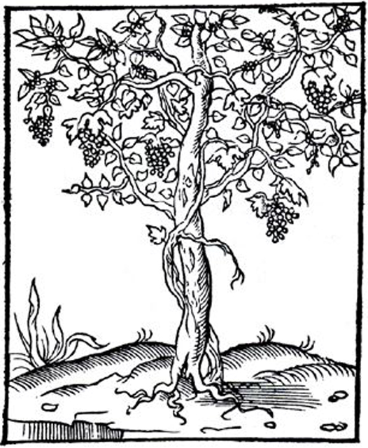 Rumpotin of Pline and Columelle